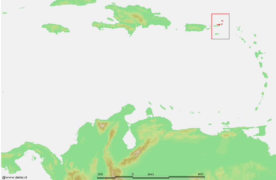 Caribbean - British Virginislands.PNG